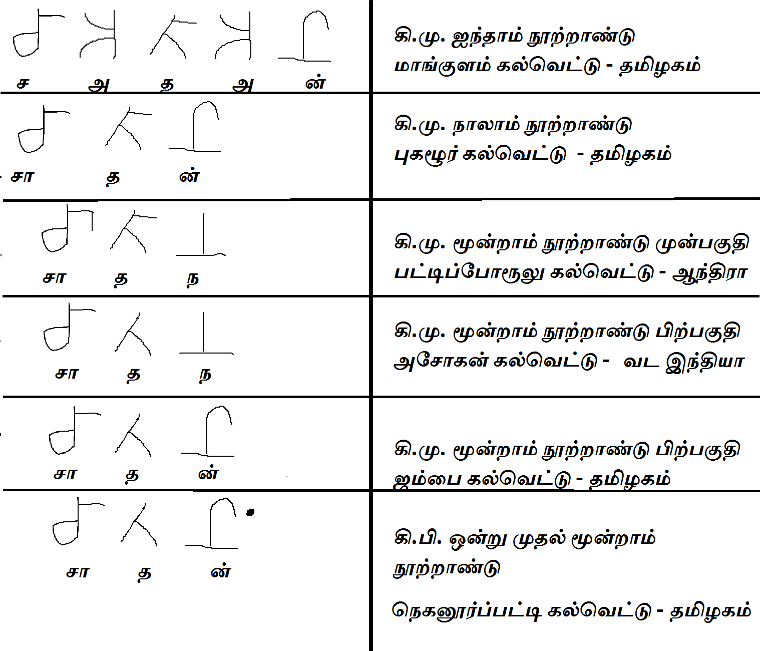 This is the method to find the date of Early Tamil Epigraphs.